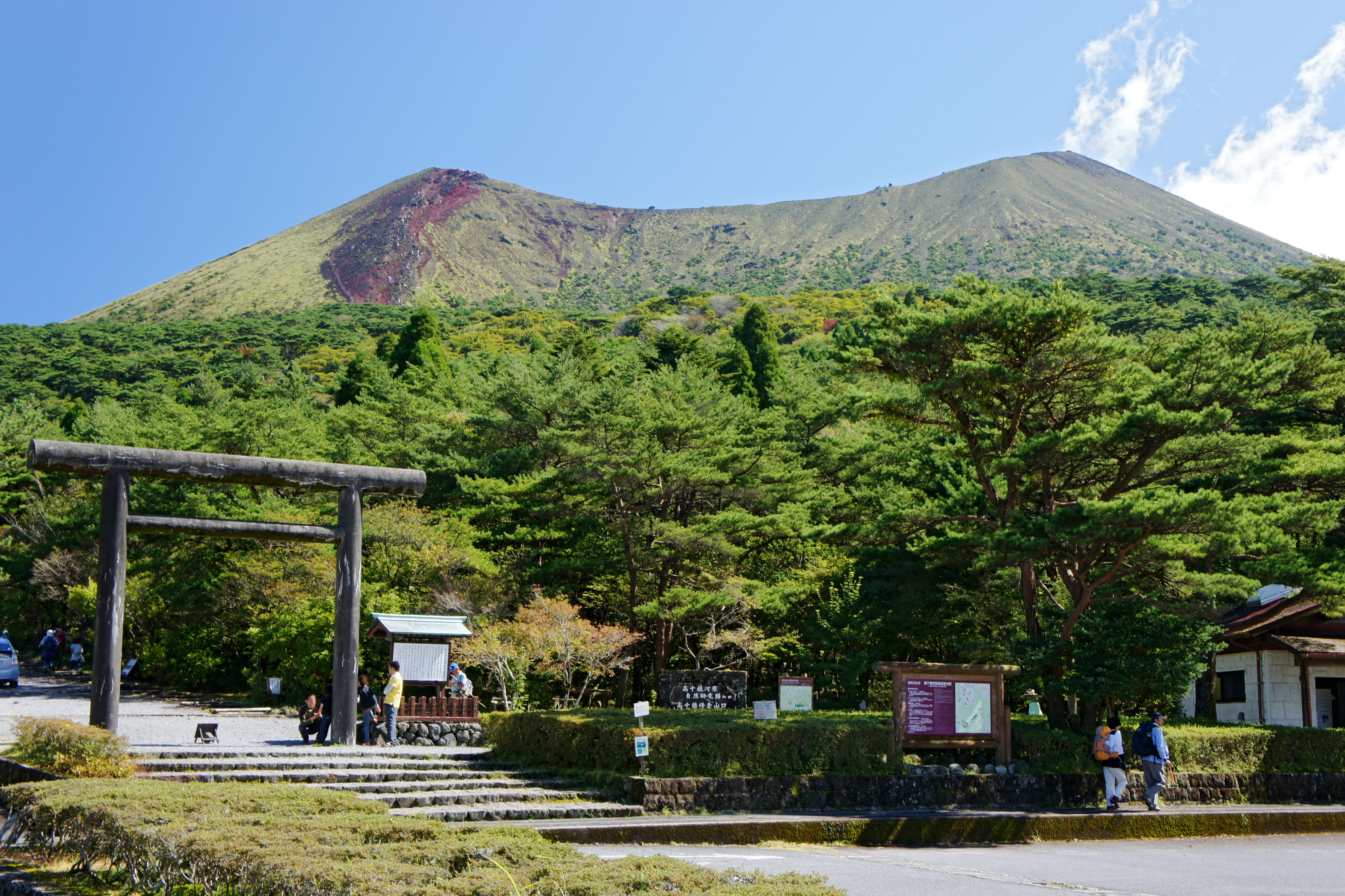 Takachiho-gawara in Kirishima, Kagoshima prefecture, Japan.